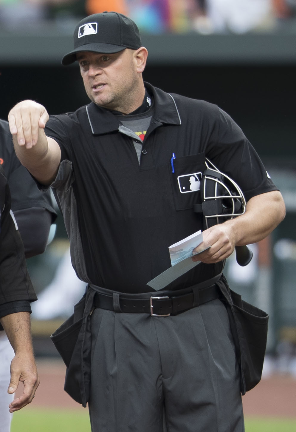 White Sox at Orioles 5/5/17